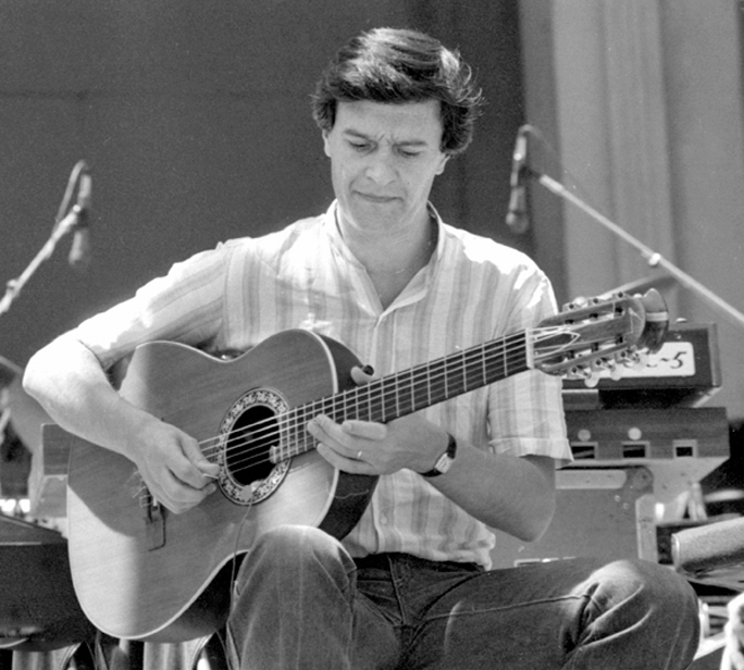 John McLaughlin at Berkeley Jazz Festival 5/25/1980. Photo by Brian McMillen /